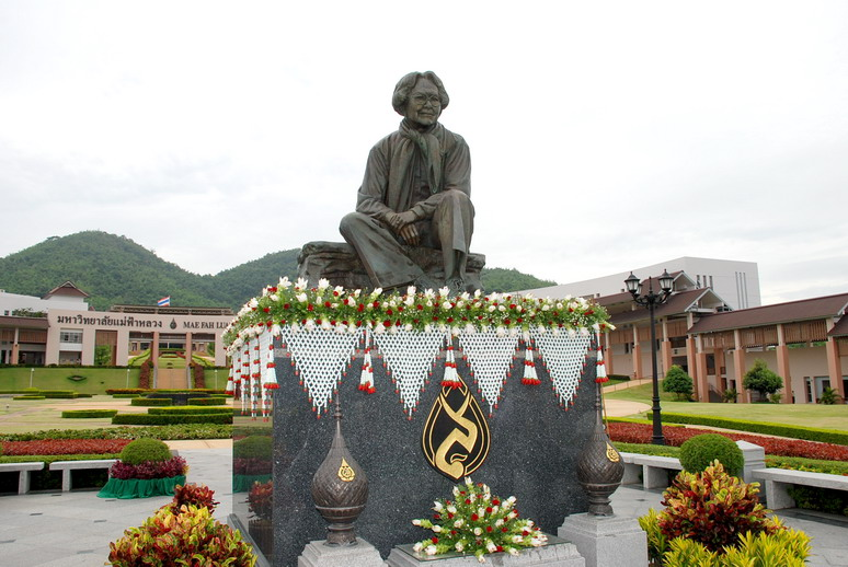 Mae Fah